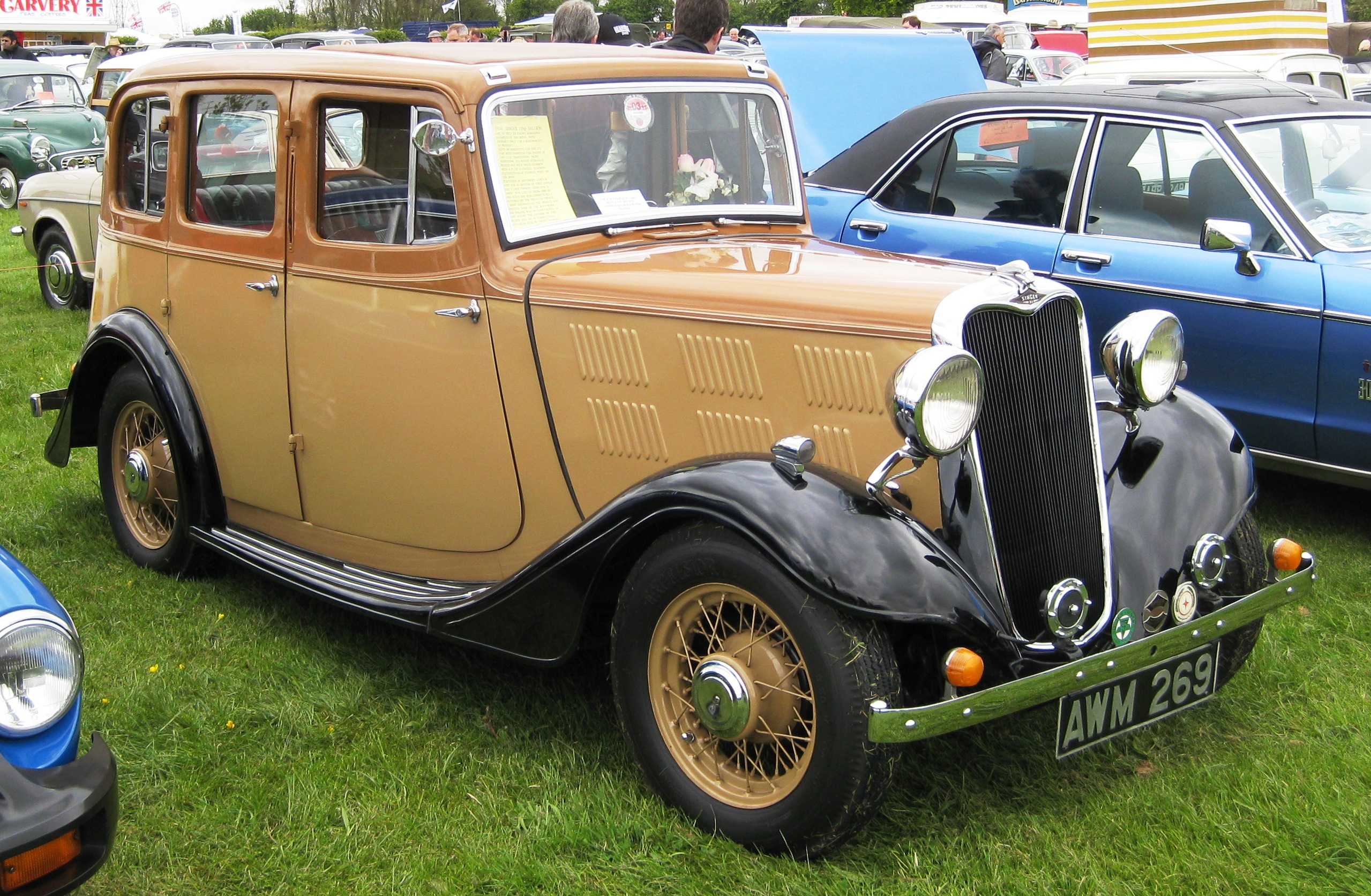 Singer 11HP 4 door saloon at Battlesbridge Classic car Show